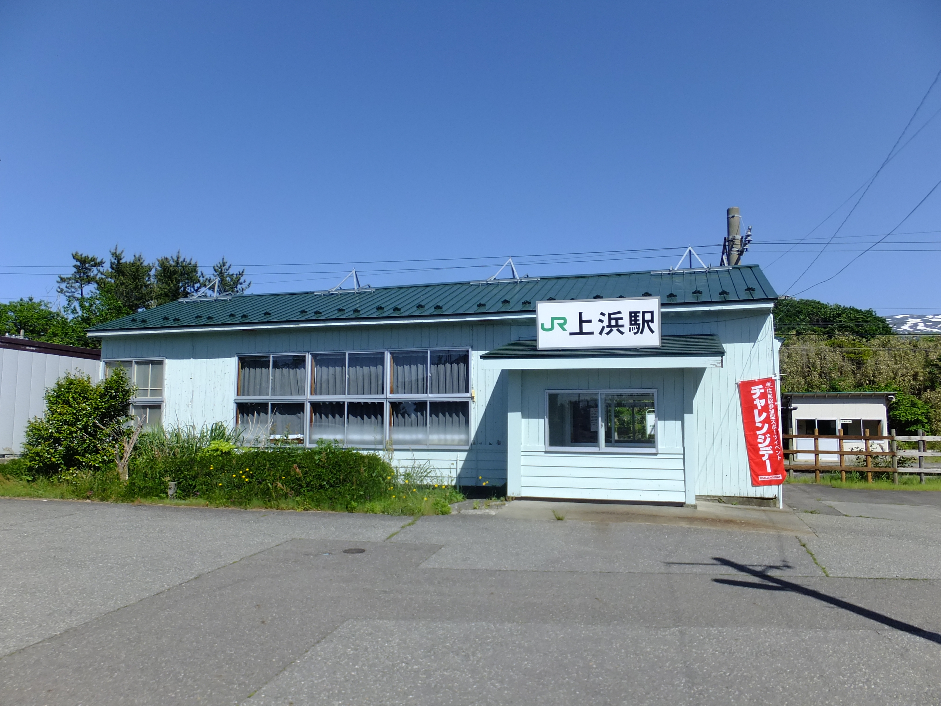 Kamihama Station on the Uetsu Main Line, in Nikaho City, Akita, Japan